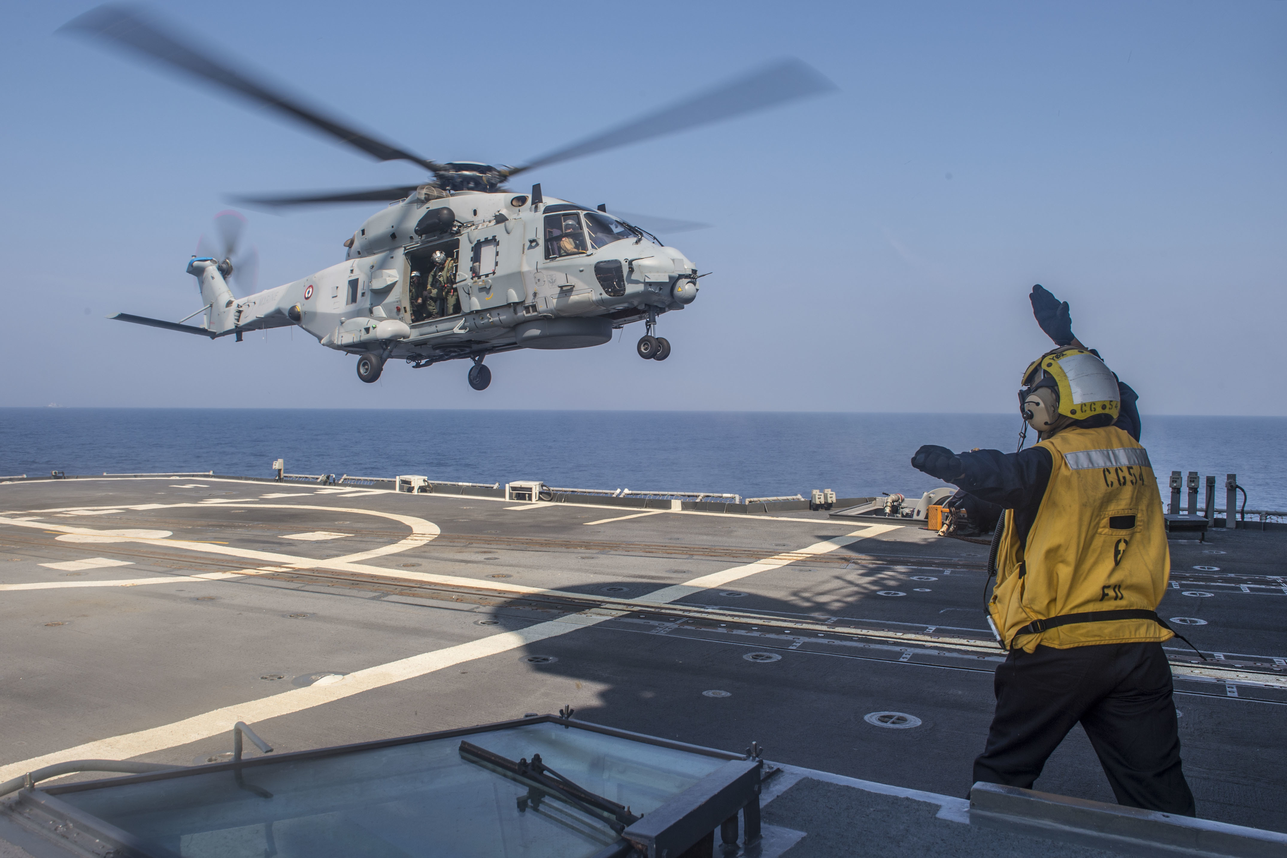 A French Marine Nationale NHIndustries NH90 NFH helicopter assigned to the frigate Provence (D652) lands on the flight deck of the U.S. Navy guided-missile cruiser USS Antietam (CG-54) during a bilateral exercise in the Bay of Bengal.